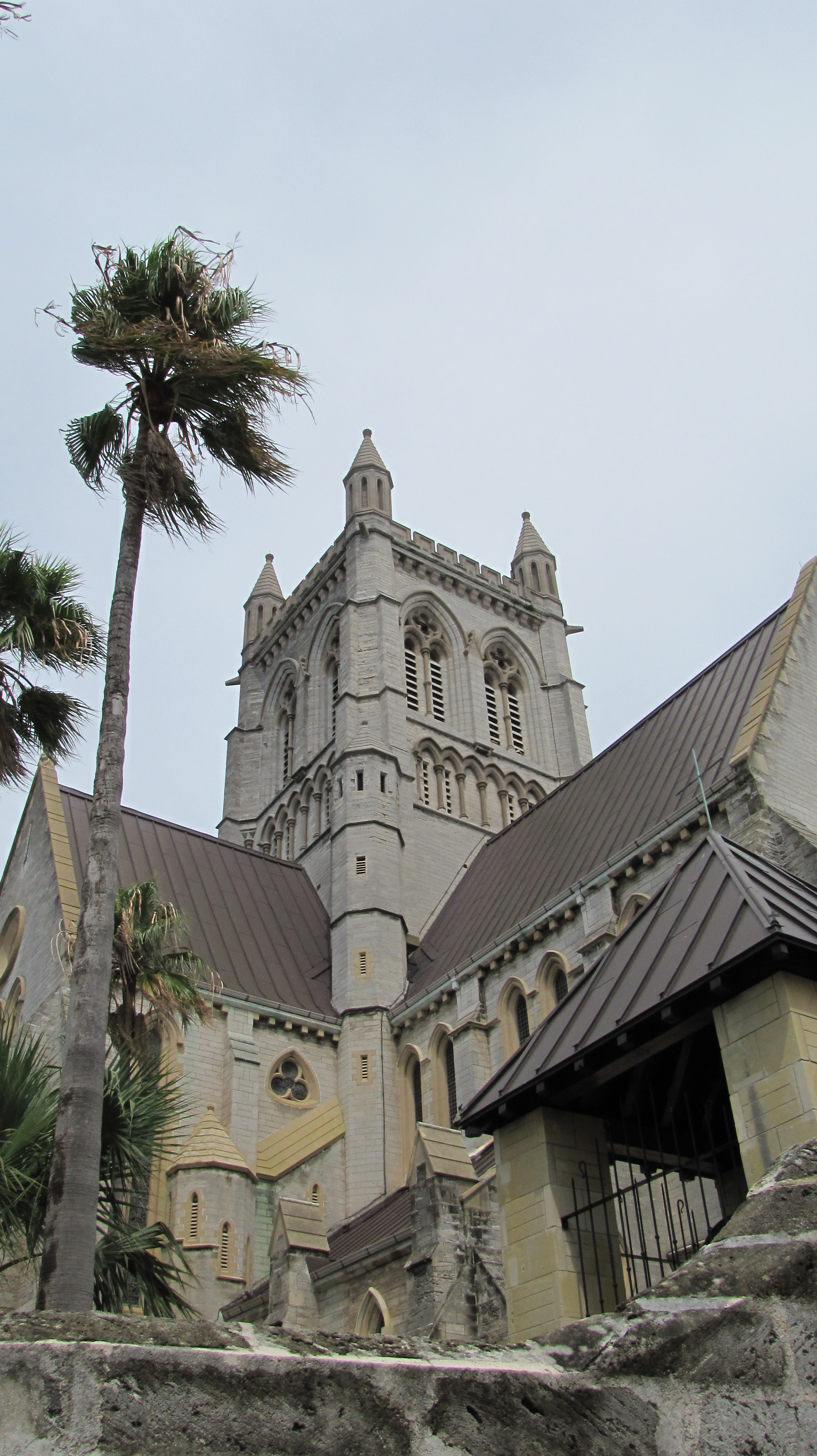 Exterior view of the Cathedral of the Most Holy Trinity, Hamilton, Bermuda